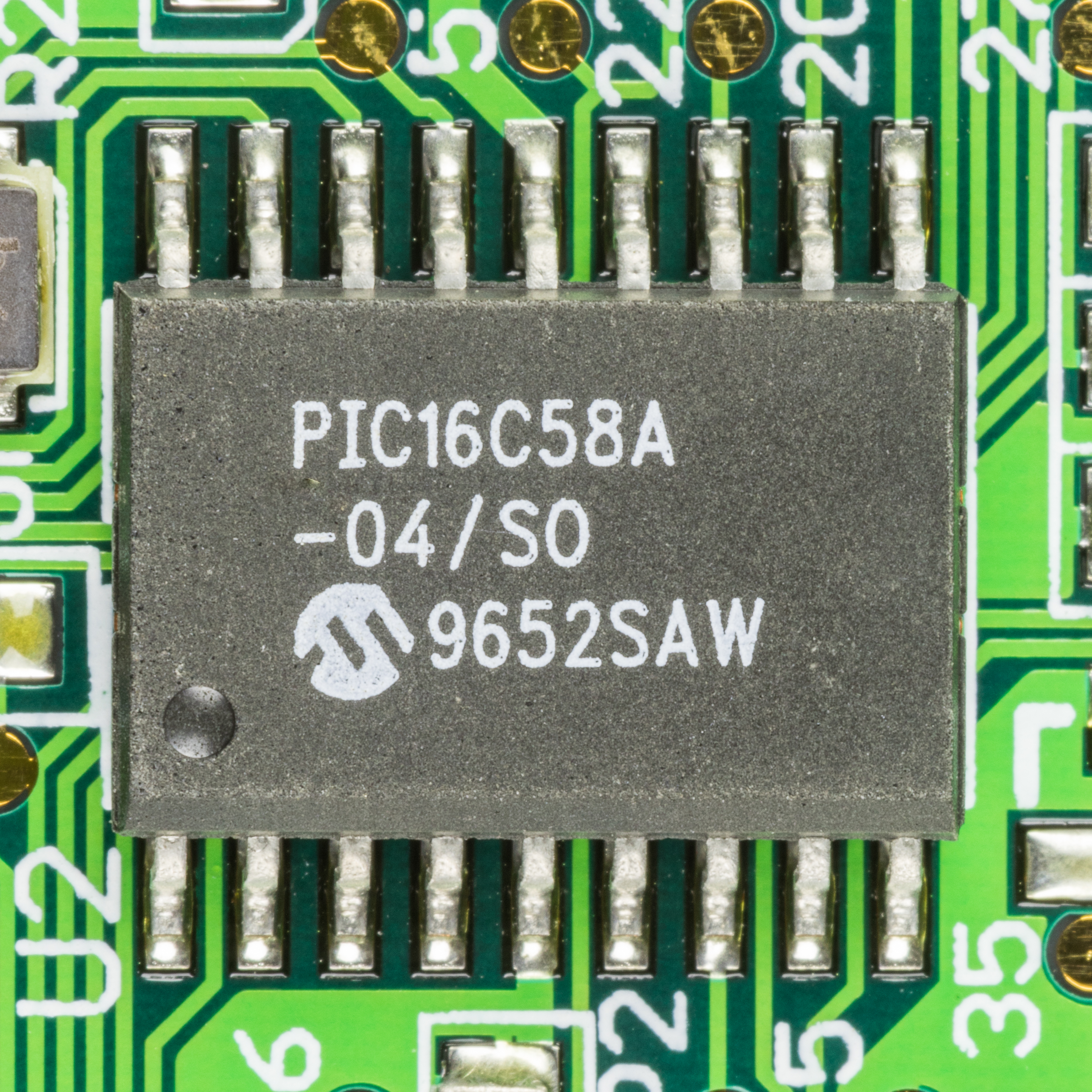 AST Research Ascentia A Series - Synaptics TM1202SPU-154-5 - touchpad, component side Microchip PIC16C58A - EPROM/ROM-Based 8-Bit CMOS Microcontroller Series